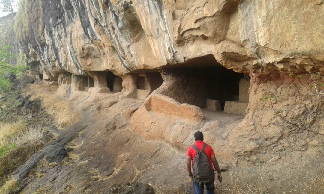 Thanale Cave Outer View